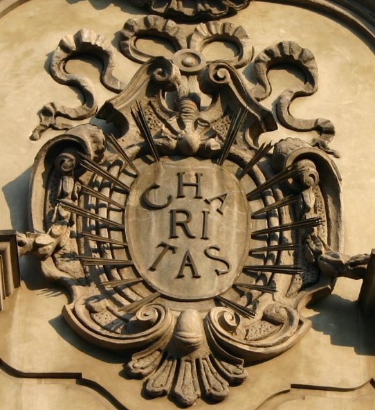 Zoom of the coat of arms in the façade